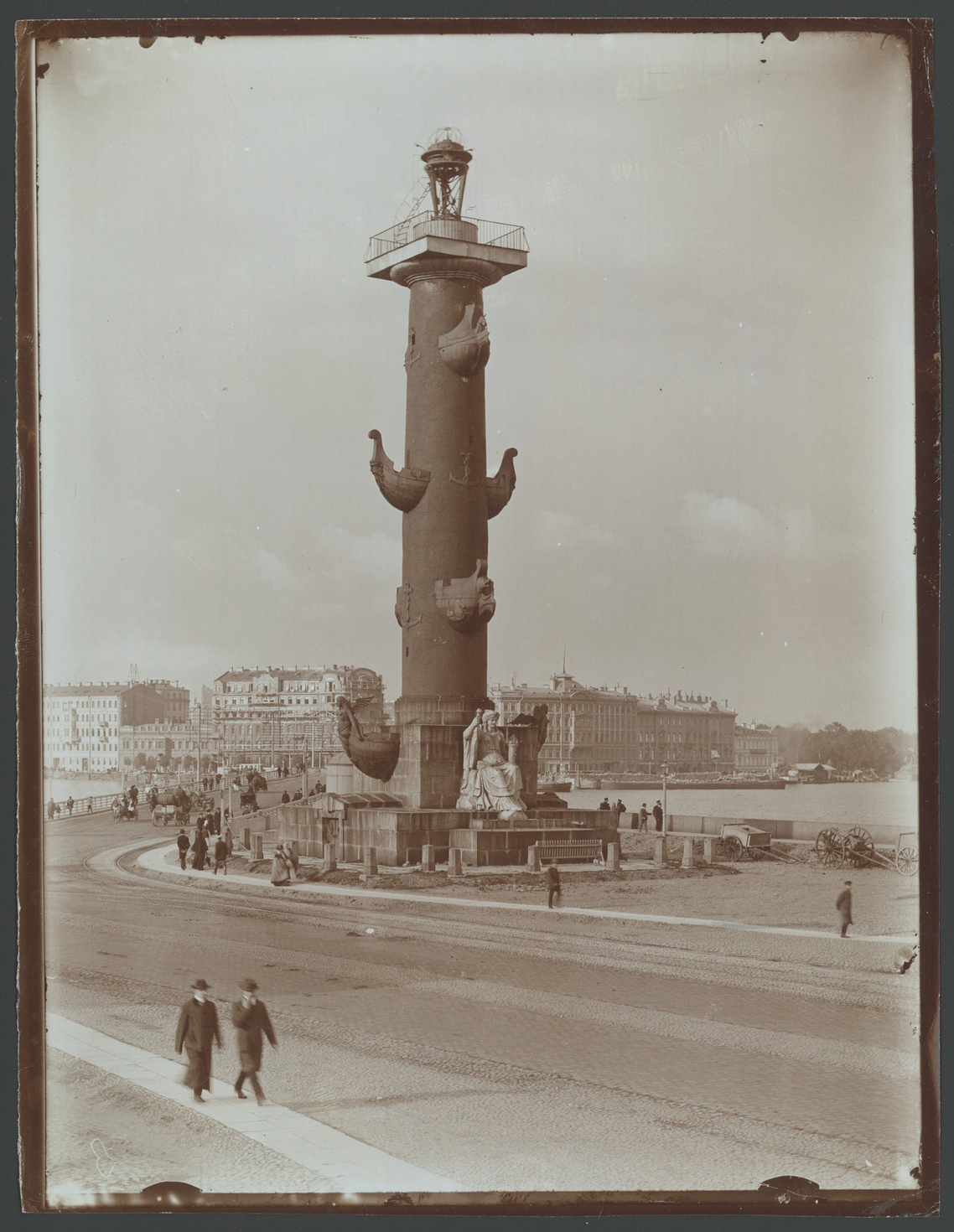 1912 Rostral column